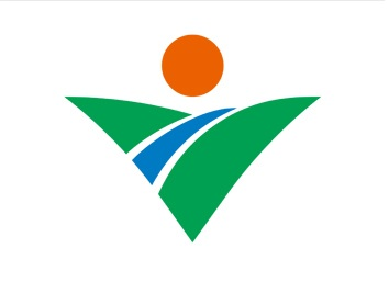 Flag of Shonai Yamagata